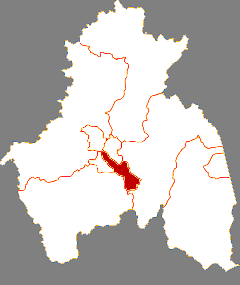 Location of Yangming district in Mudanjiang City, China